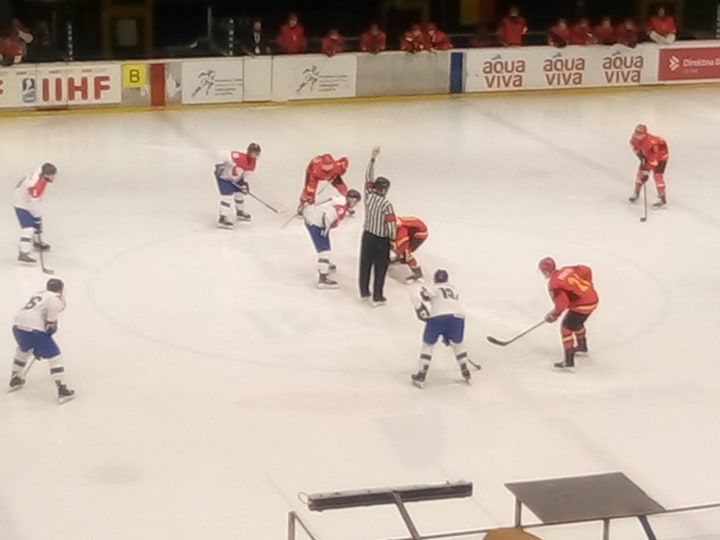 Serbia - Belgium at 2019 IIHF World Championship Division IIA